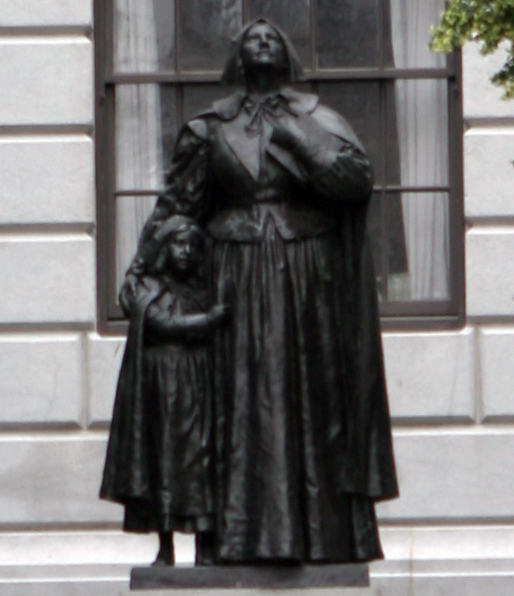 Statue of Anne Hutchinson by Cyrus Dallin unveiled in 1915 (dedicated in 1922). Dallin died in 1944.